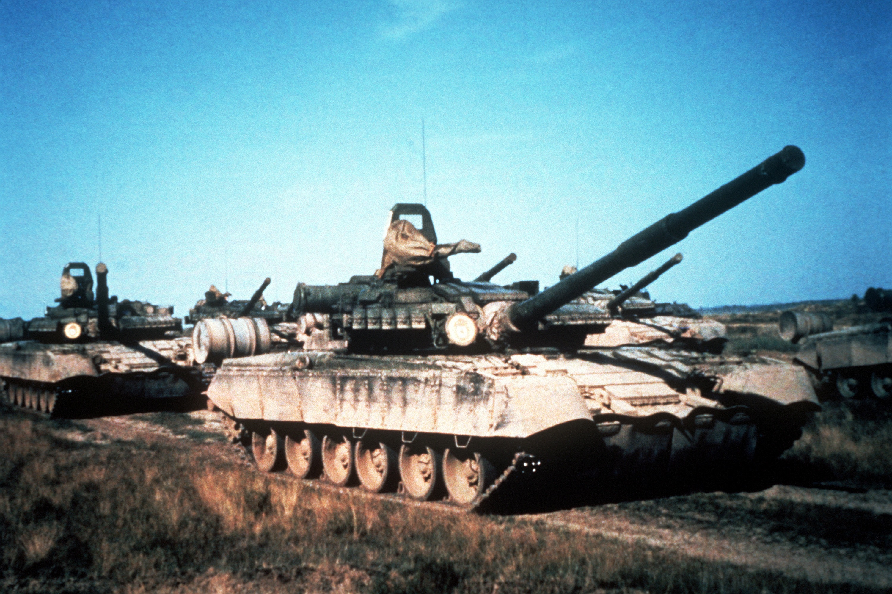 A Soviet T-80BV main battle tank, equipped with reactive armor.